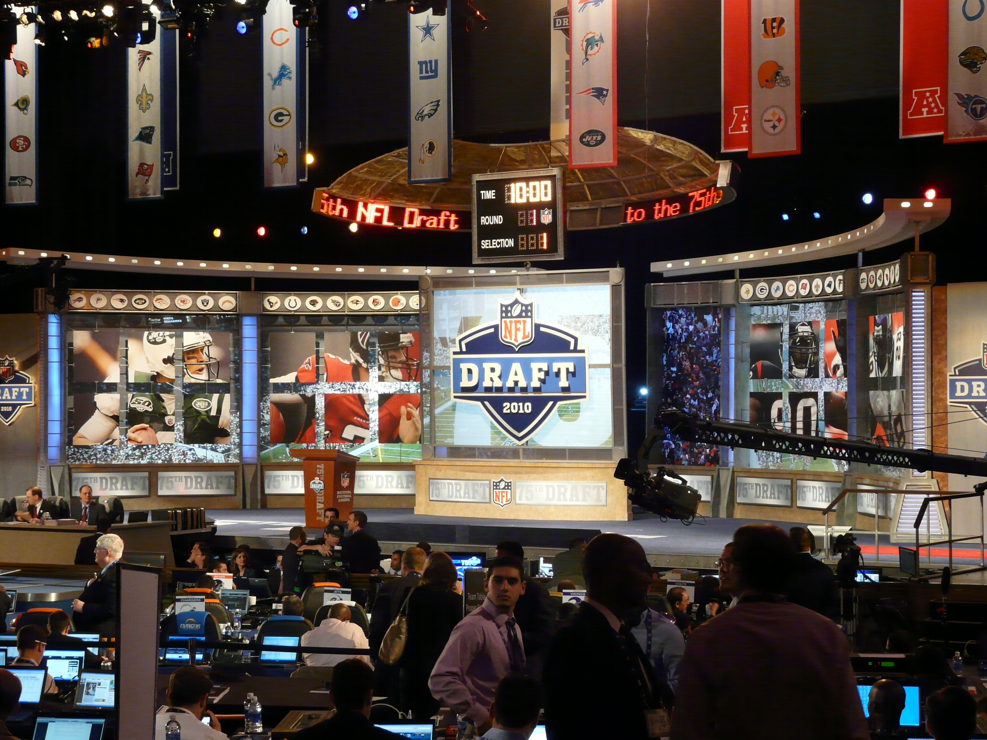 The players in the pictures on the stage are Mark Sanchez, Matt Ryan, Mario Williams and Adrian Peterson.